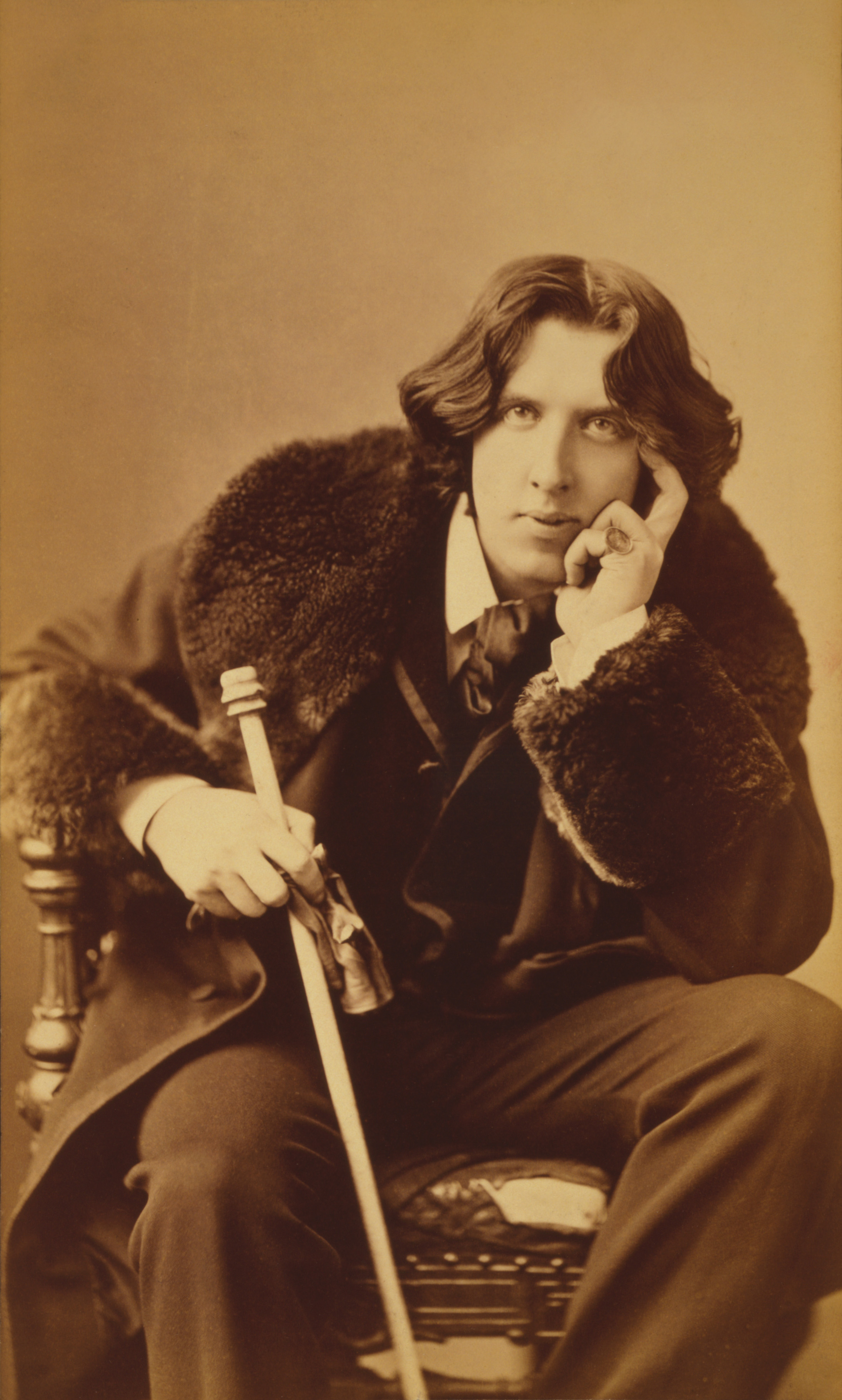 Three quarter length portrait of Oscar Wilde(en) by Napoleon Sarony(en). 1 photographic print on card mount : albumen.